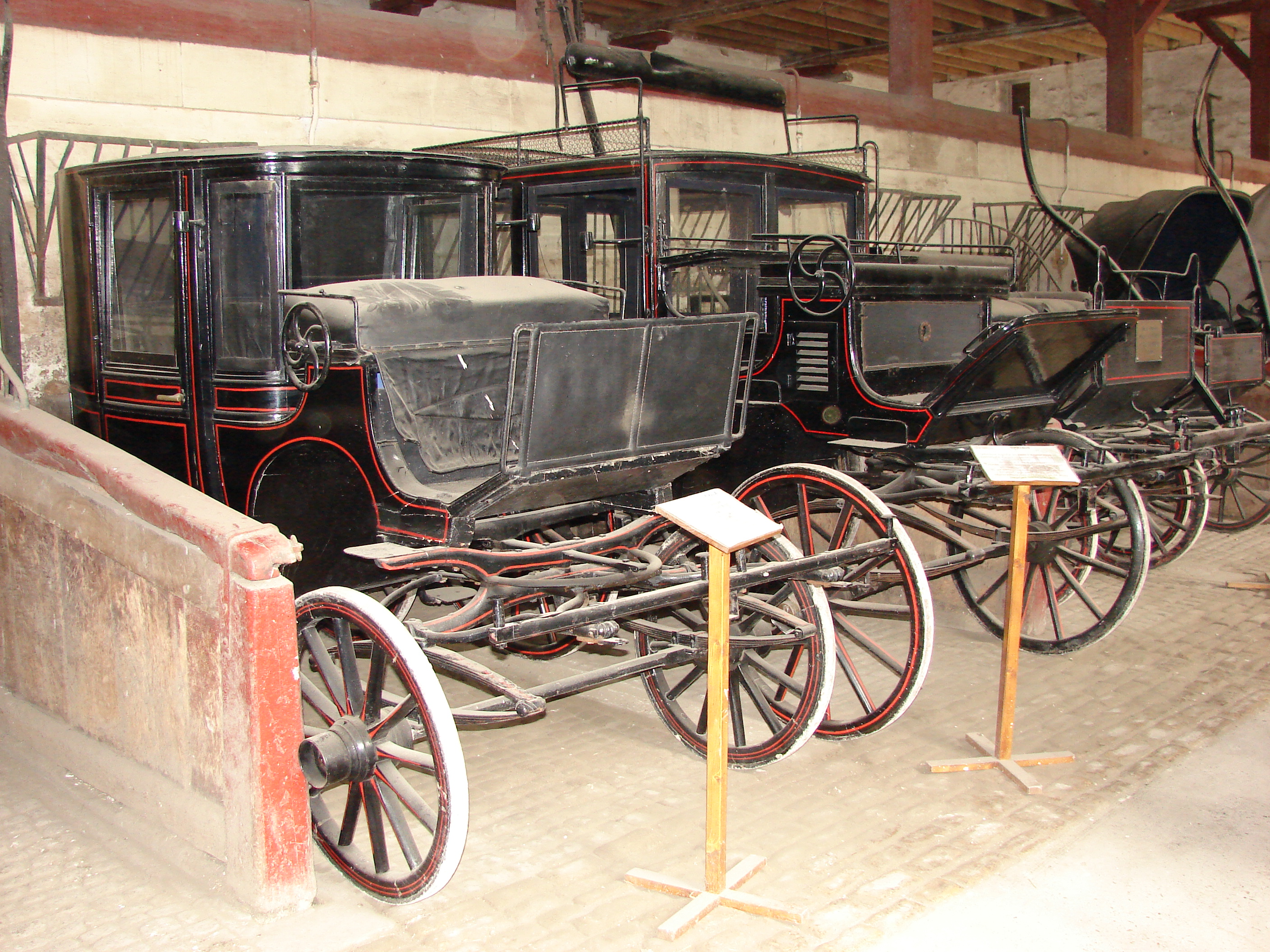 Haras national, Saintes, Charente-Maritime, France